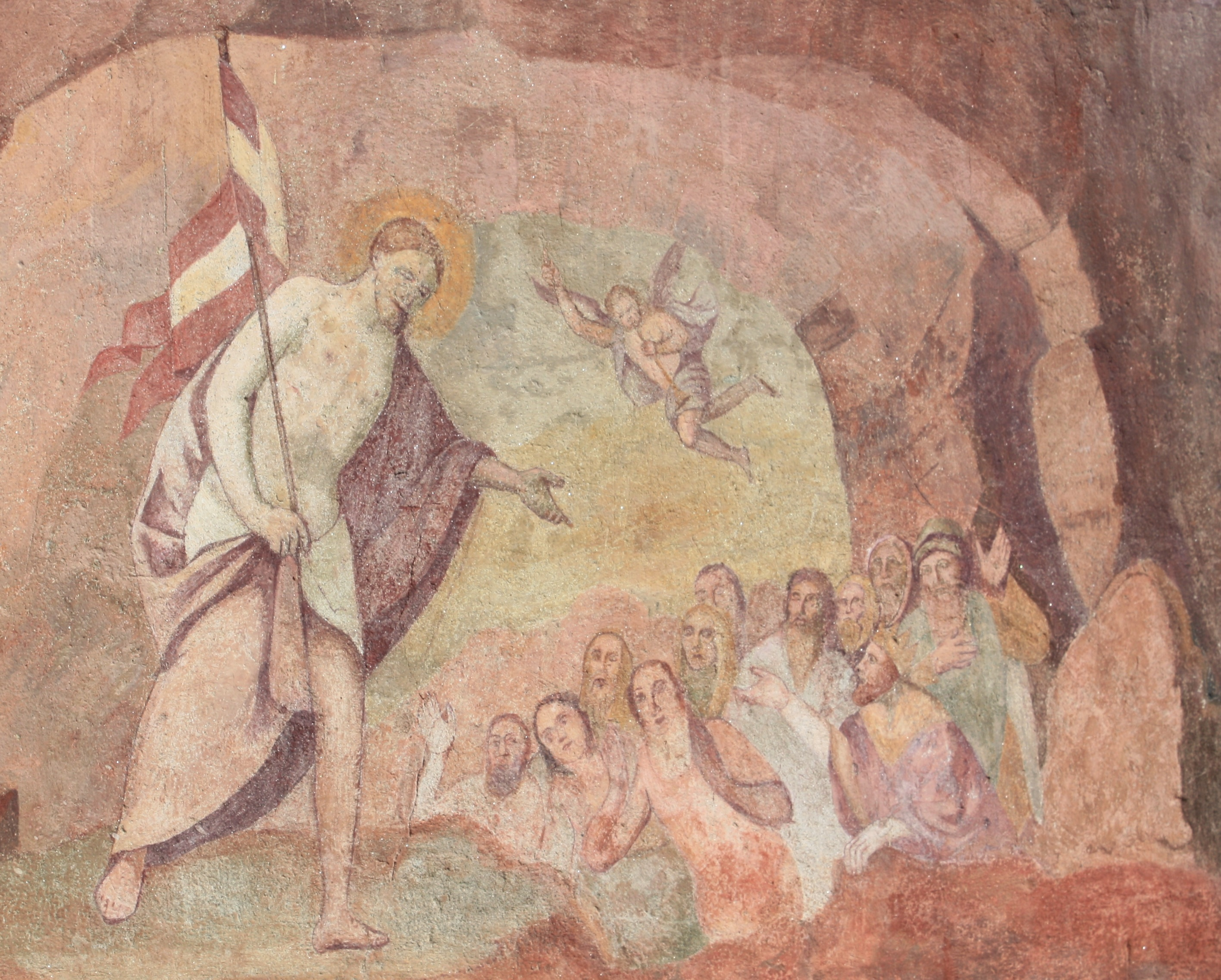 Parish church Assumption of Mary - Fresco - Harrowing of Hell Locality:Kirchgasse Community:Gmünd